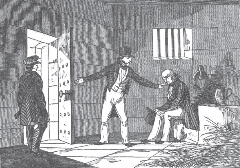 Sketch of Richard Mentor Johnson freeing a man from debtors' prison. Johnson was an advocate of ending the practice of debt imprisonment throughout his political career.